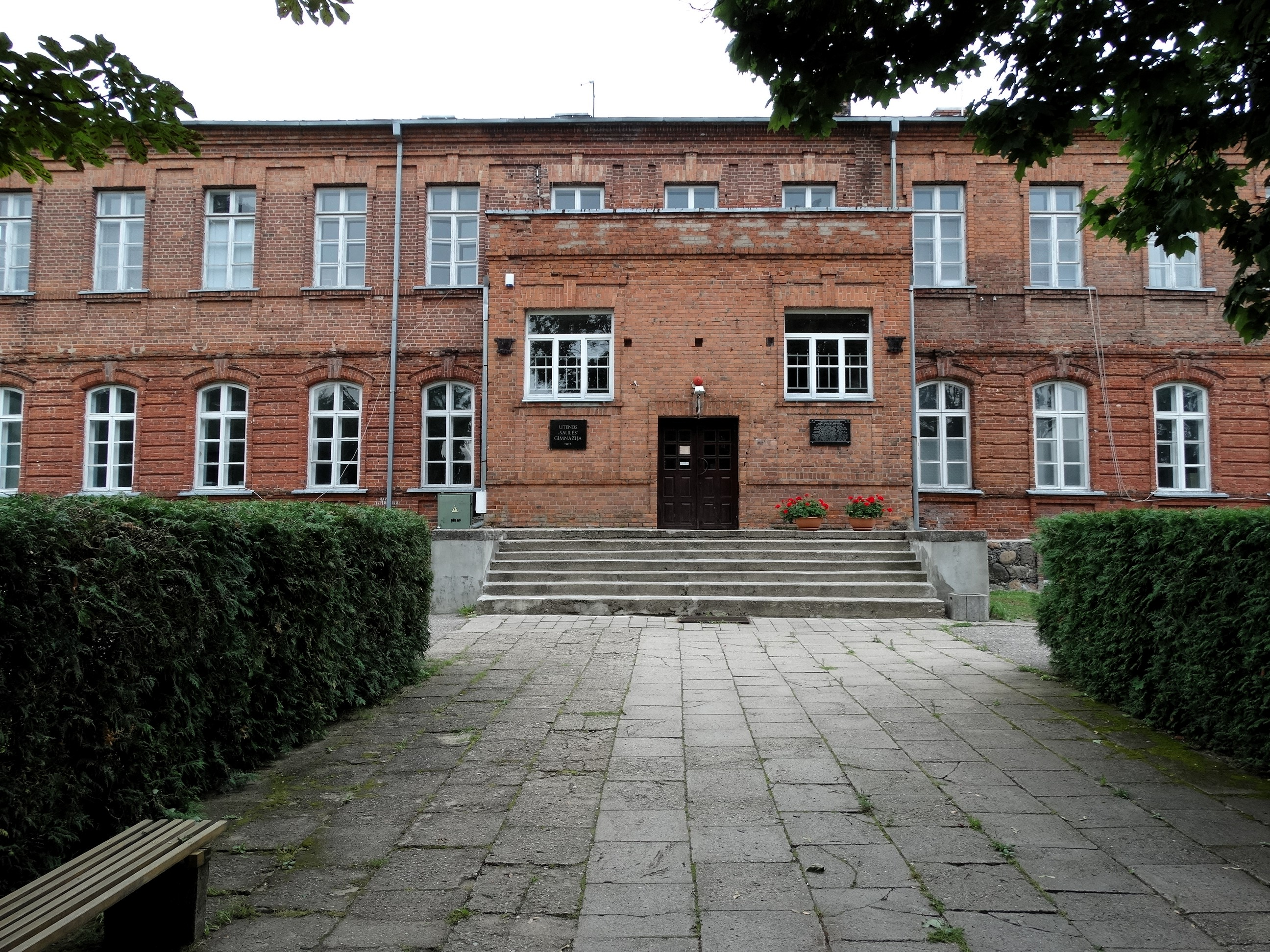 Saulės Gymnasium, Utena, Lithuania